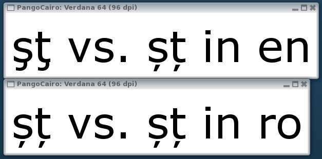 Illustrates the locl OpenType feature in Pango (1.17 or newer). Above is the rendering for the default English locale and below it is the custom rendering for the Romanian locale.